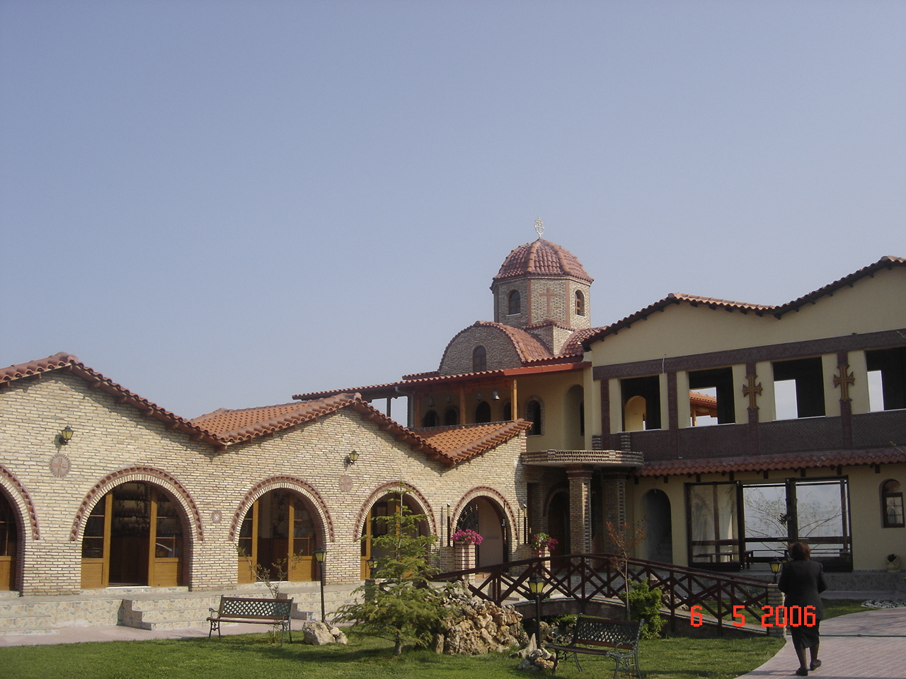 Saint Ephraim monastery in Kontariotissa, Pieria, Greece